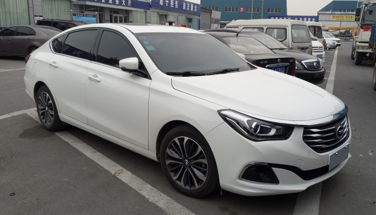 GAC Trumpchi GA6 photographed in Yinchuan, Ningxia province, China.